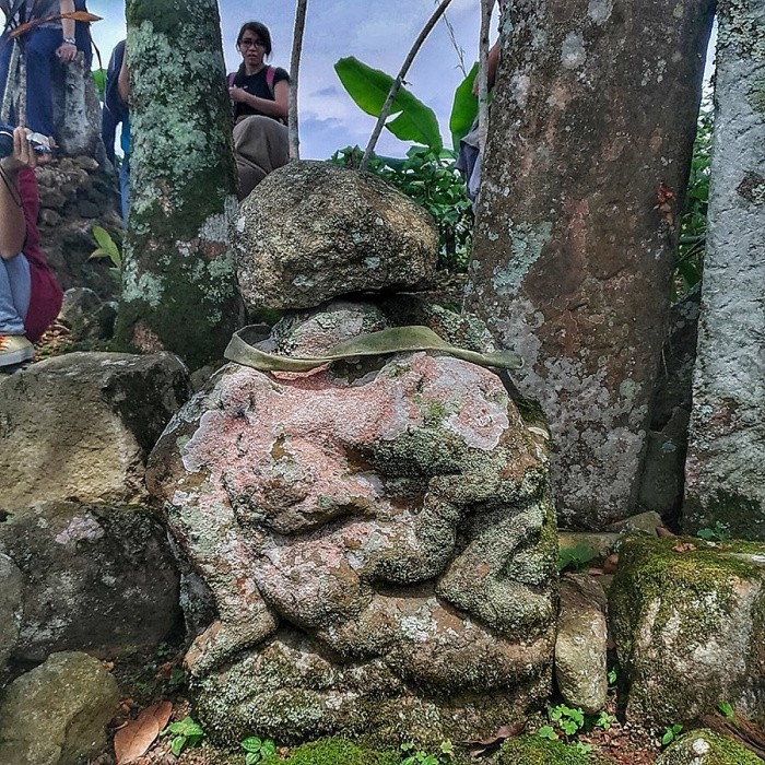 Patung Batu yang telah rusak di Gunung Lumbung, Kecamatan Cililin, Kabupaten Bandung Barat Licensing This work has been released into the public domain by its author, Ridwan Hutagalung. This applies worldwide. In some countries this may not be legally possible; if so: Ridwan Hutagalung grants anyone the right to use this work for any purpose, without any conditions, unless such conditions are required by law.